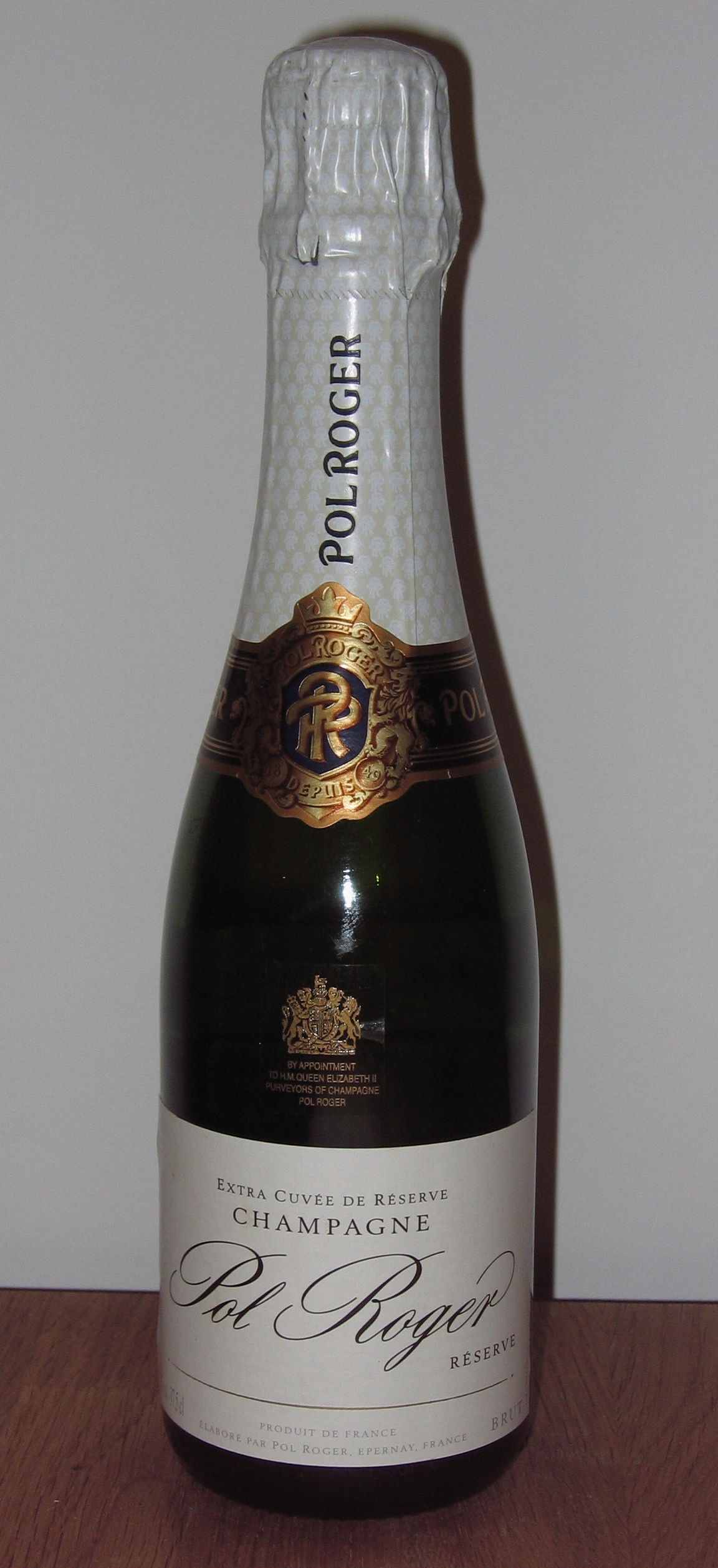 Half bottle of Champagne Pol Roger